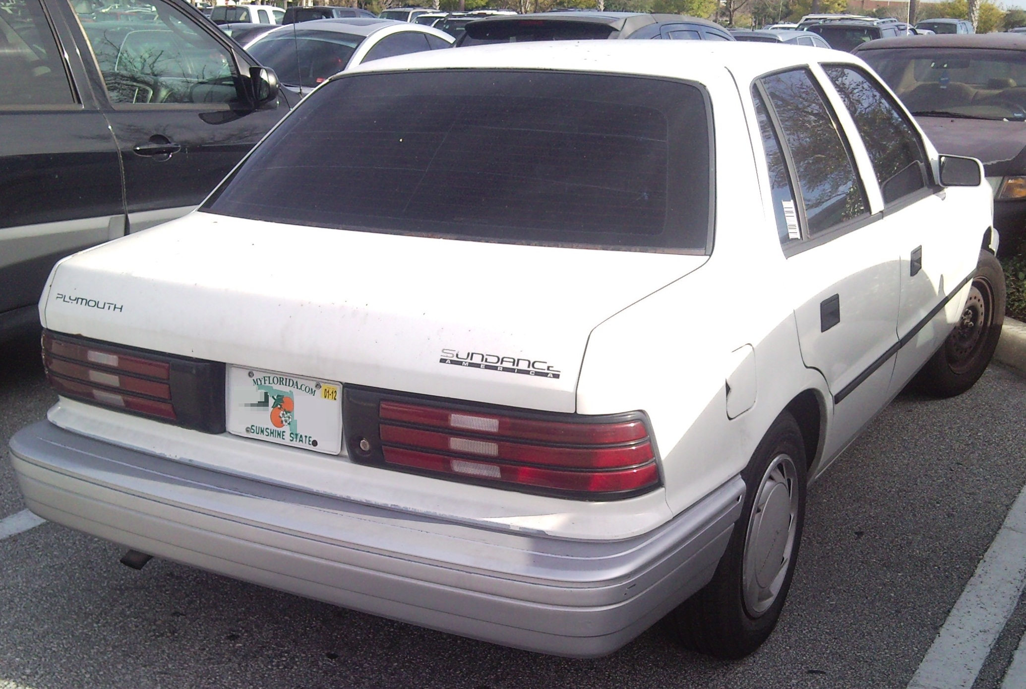 1994 Plymouth Sundance photographed in Orlando, Florida, USA.